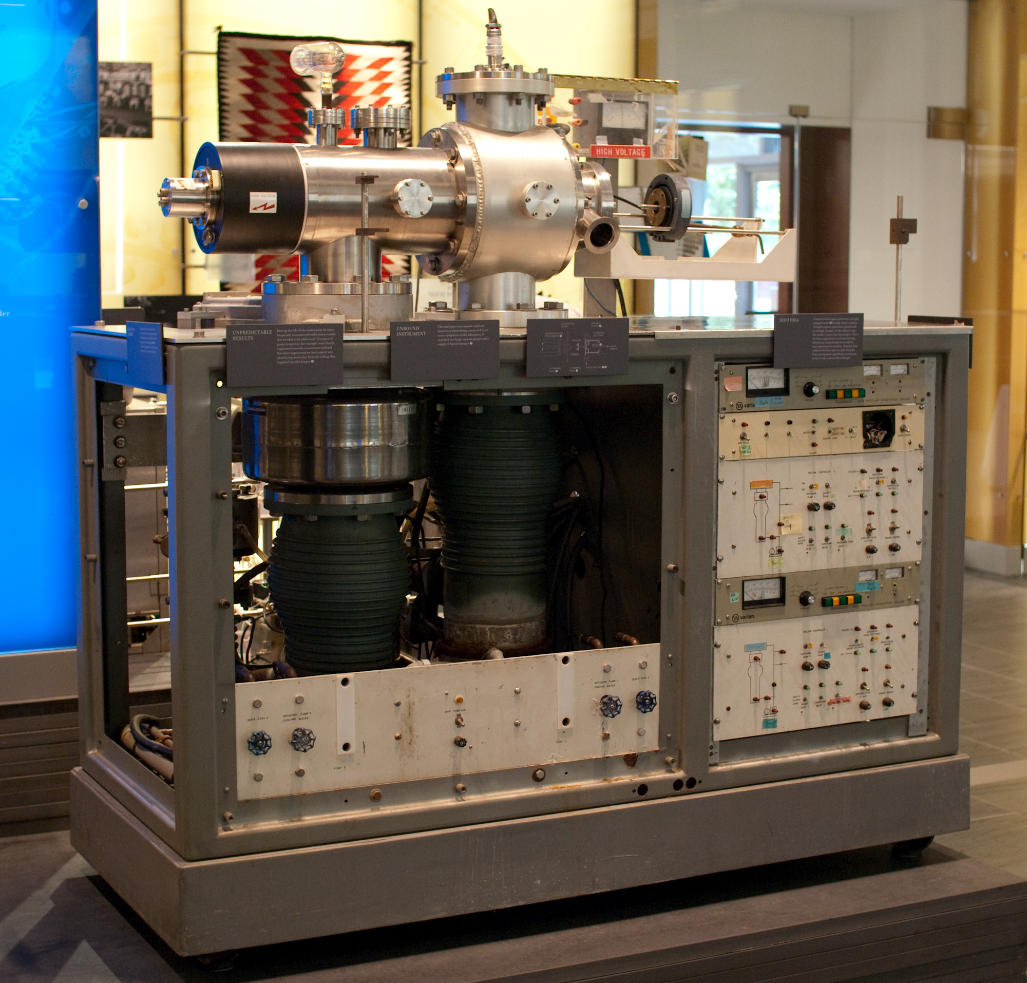 The single quadrupole mass spectrometer and ion source used for John Fenn's Nobel Prize winning discovery of electrospray ionization. This instrument is on display at the museum of the Science History Institute (formerly the Chemical Heritage Foundation) in Philadelphia, PA.